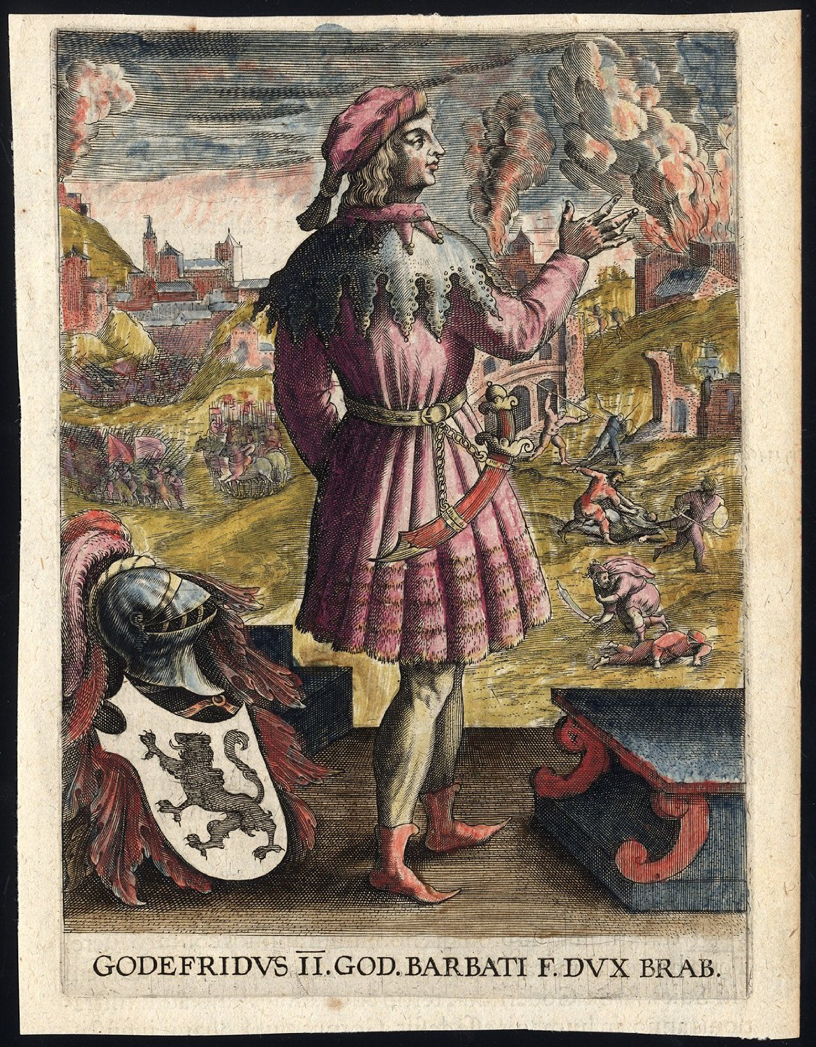 Godfrey II, Count of Leuven